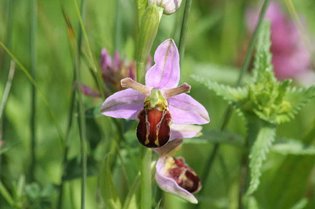 Bee Orchid Found on one of my recent outings. The exact location is not given.